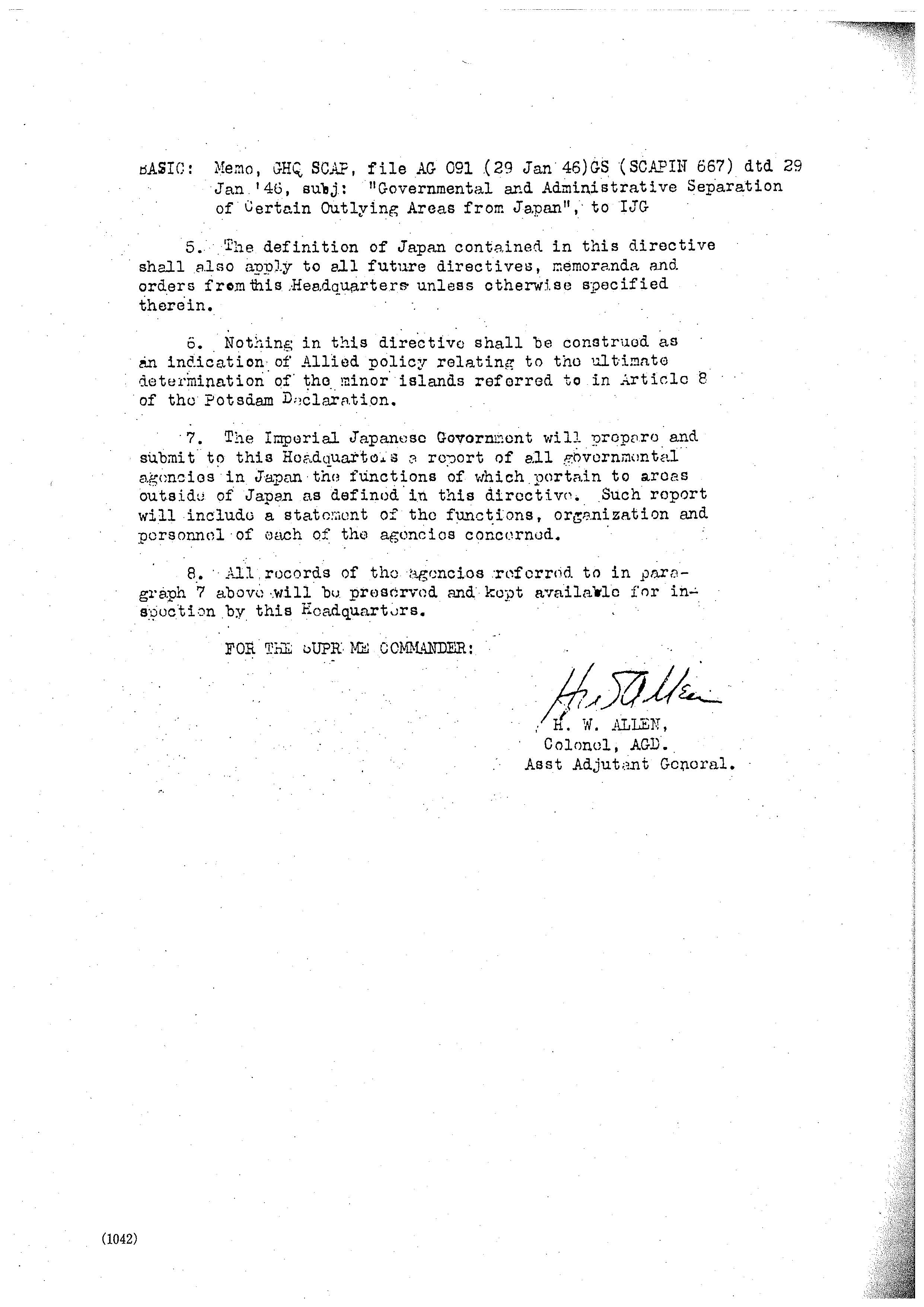 Governmental and Administrative Separation of Certain Outlying Areas from Japan